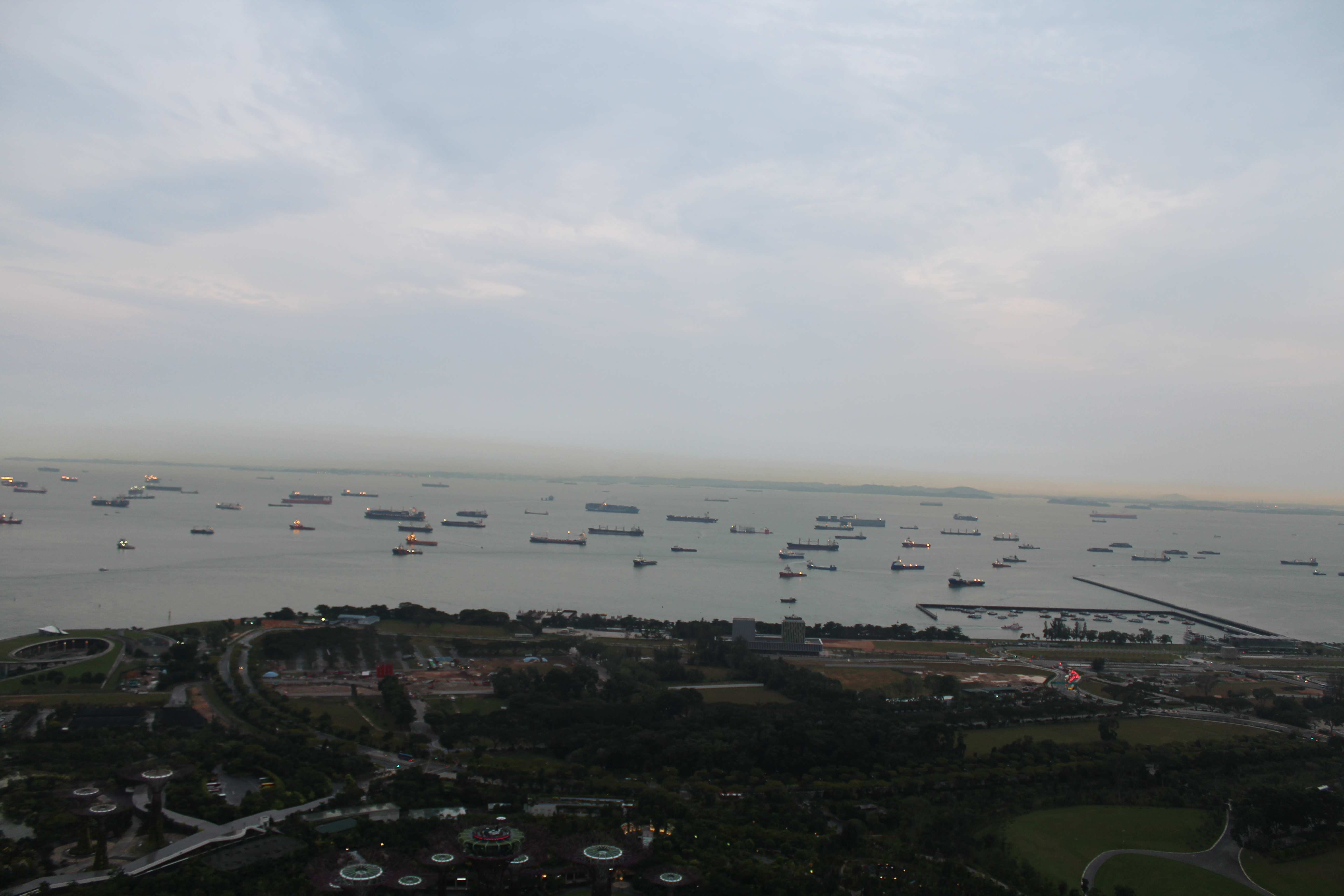 A view of the Singapore Strait from the Sands Sky Park, Marina Bay Sands, Singapore. The Riau Islands and Southern Islands of Singapore can be seen at the horizon. Supertrees from Gardens by the Bay are on the bottom left.